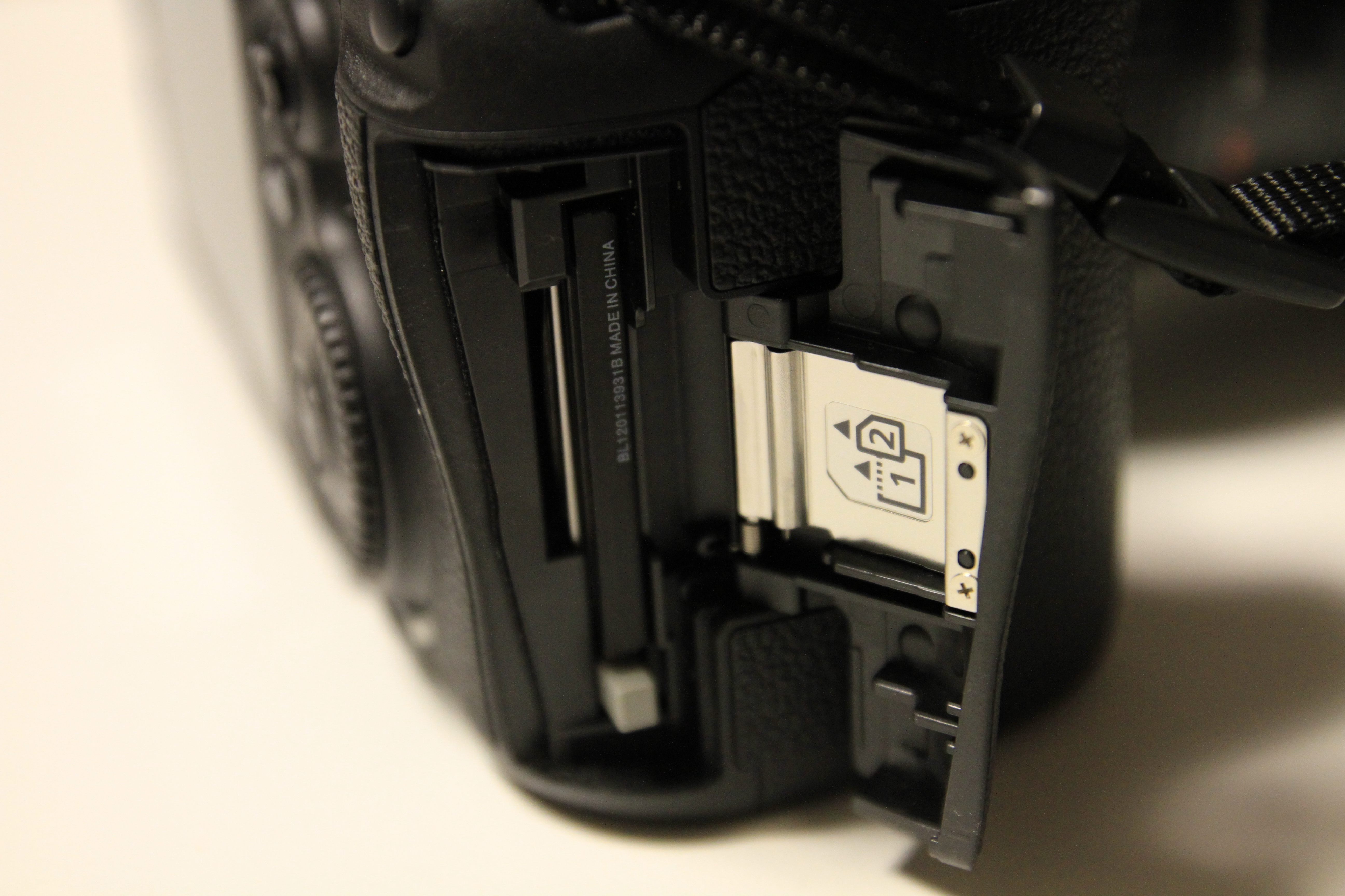 Canon EOS 5D Mark III, memory card slots